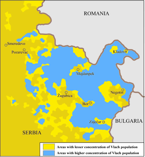 The Vlachs of the Timočka Krajina region.